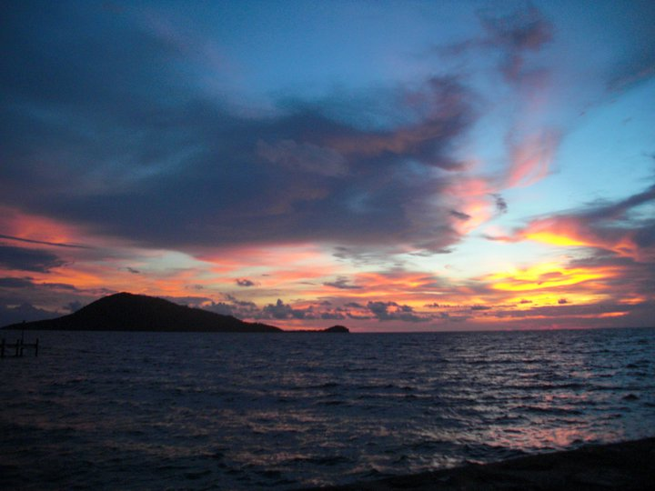 Sunset from Turtle Bay Eco Resort in November.